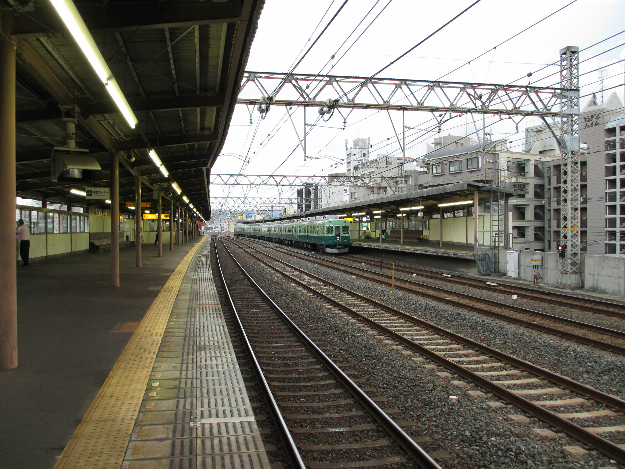 Keihan Nishisanso Station platform